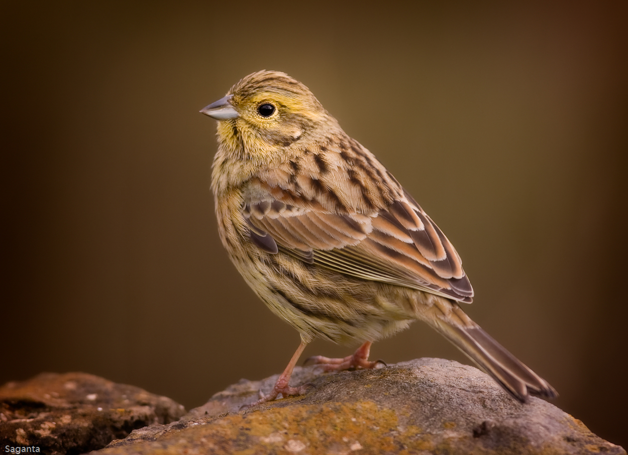 Emberiza cirlus female, photographed on December 31, 2008 in Ayódar, Valencia, Spain.